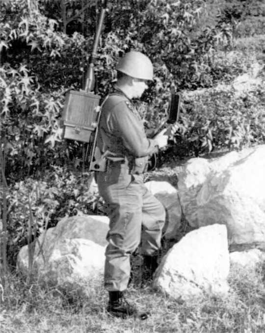 A NEW SPACE satellite navigation system called NAVSTAR could bring changes for U.S. Infantrymen in the late 1980s. By then, compact 8- to 12-pound satellite signal receivers could be providing ground troops with precise location information for both common and unique combat operations. The receivers would be tied to a system of 24 NAVSTAR global positioning satellites currently being developed by the U.S. Air Force Space and Missile System Organization (SAMSO) in Los Angeles. The joint military service program is scheduled to be fully operational about 1984. Current development models of the NAVSTAR manpack weigh about 25 to 30 pounds. With time, SAMSO hopes the bulk can be reduced to a small handheld unit and made adaptable for use in many types of ground vehicles and lightweight watercraft. The NAVSTAR system is expected to aid Army units in target designation, fighter aircraft support, field artillery direction, parachute drops, supply air drops, ground and water navigation, and long-range patrol operations.